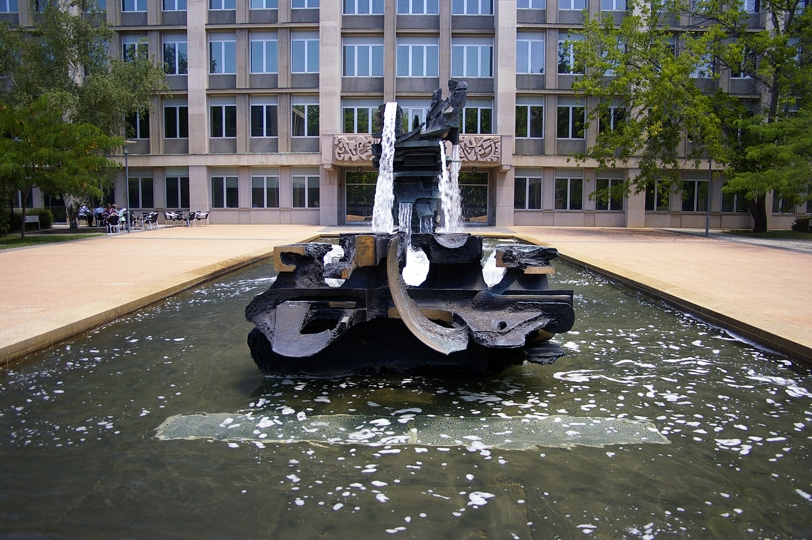 The Treasury Building Fountain located in the courtyard of The Treasury Building in Parkes, Australian Capital Territory.